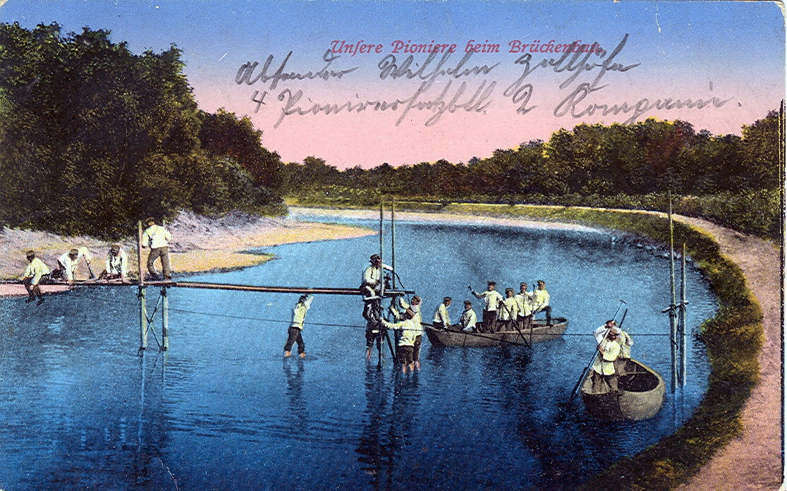 Postcard, dated 16.05.1915 in Ingolstadt. Title: "Our sappers building a temporary bridge"